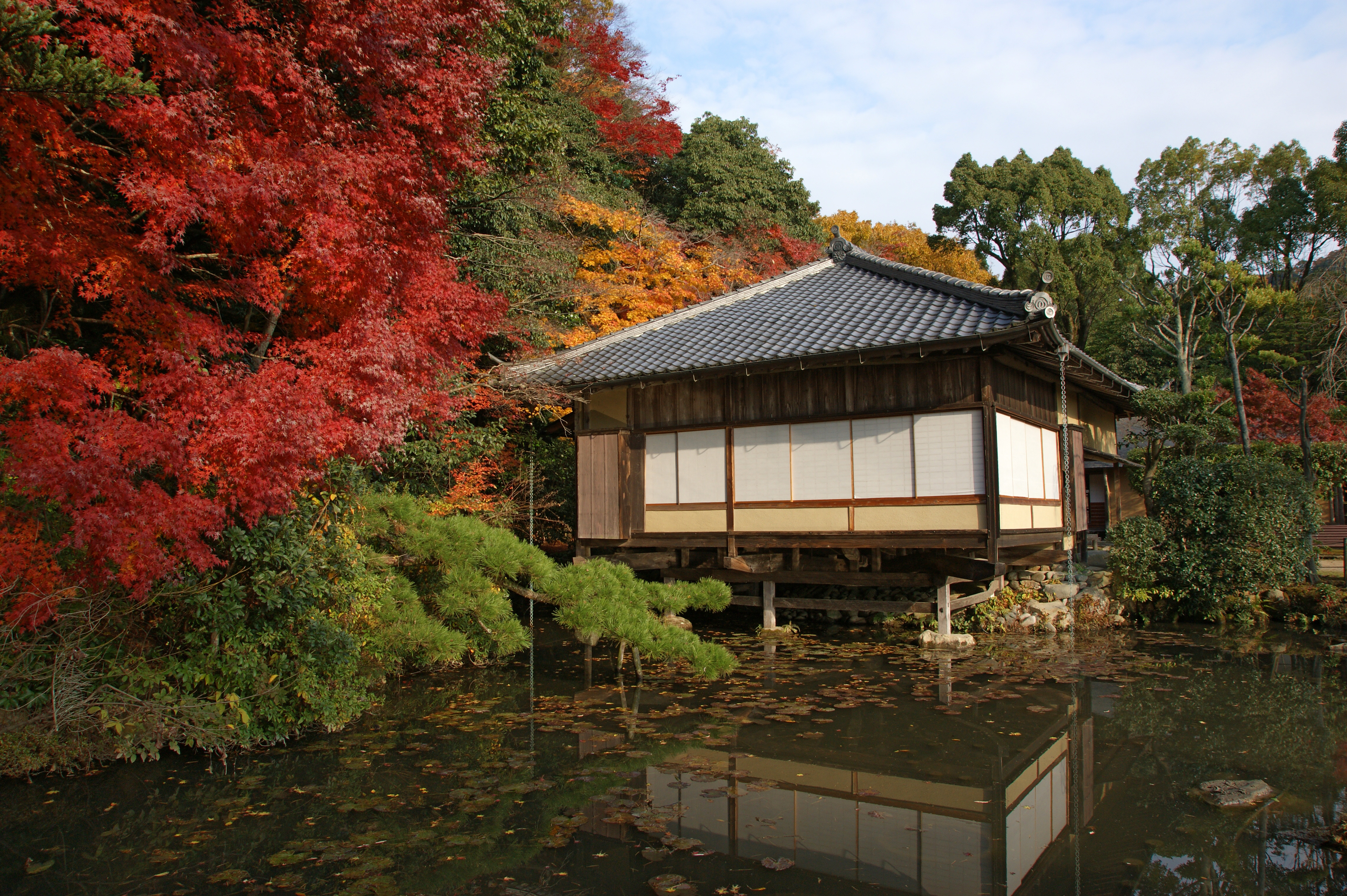 Shuentei, Tatsuno, Hyogo prefecture, Japan